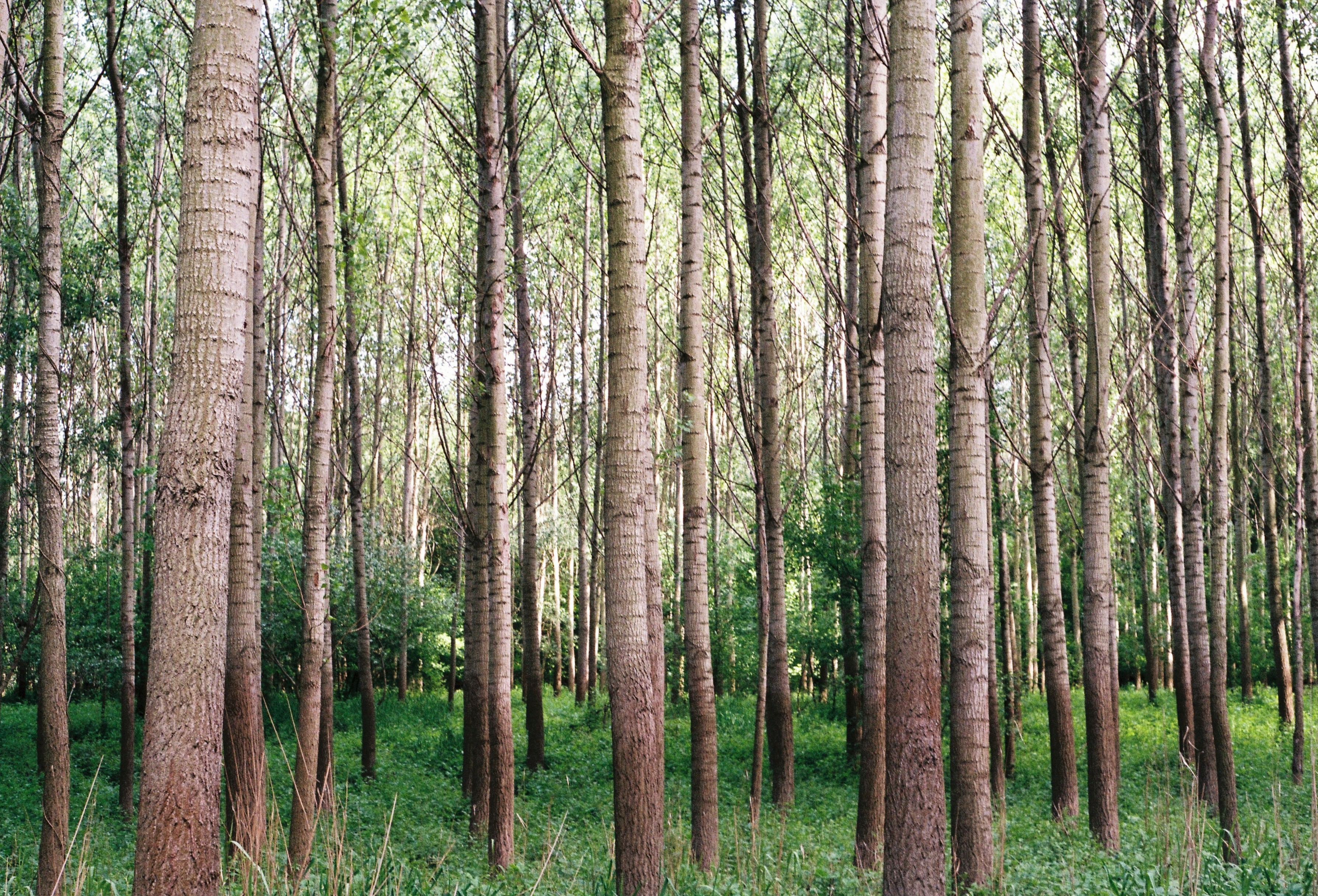 Bratislava, Slovakia